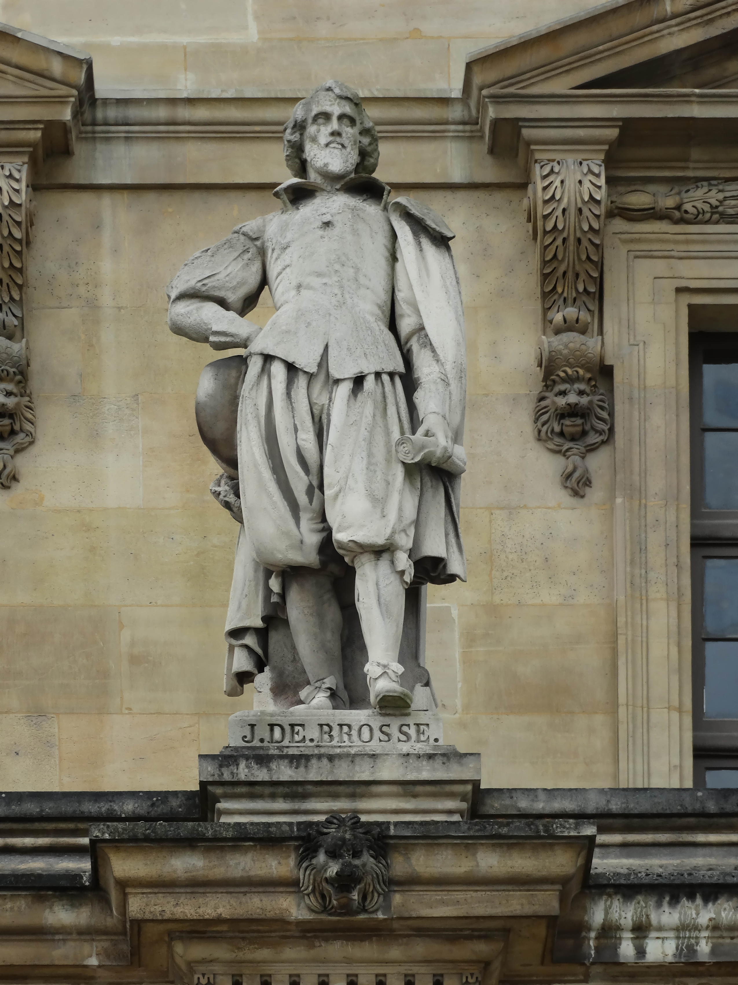 Created by Auguste Ottin this stone statue is on the Aile Daru facade of the Louvre and is of Jean de Brosse.